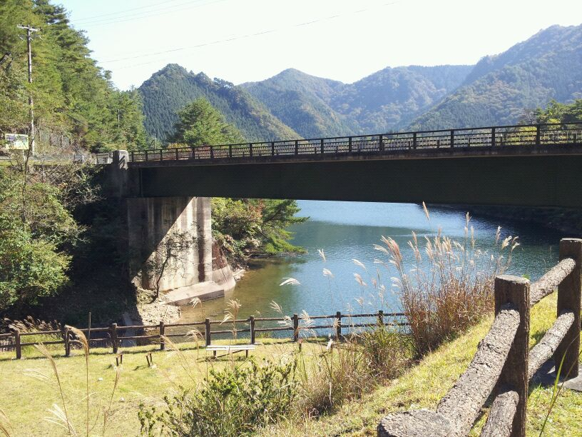 Photo of lake at Ikuno